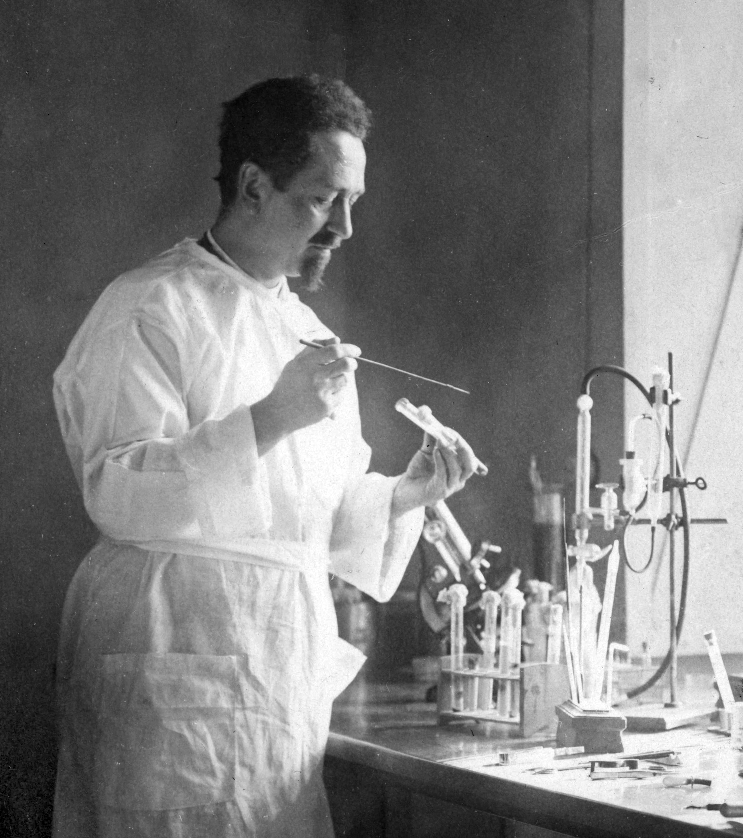 Rudolf Weigl - bakteriolog